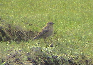 Plain Mountain Finch Leucosticte nemoricola in Uttarakhand, India.